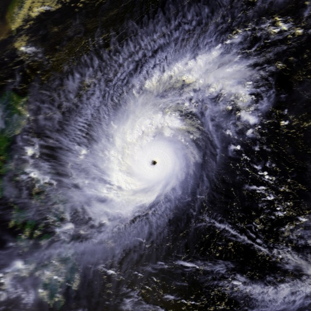 Typhoon Ivan from NOAA-14. Inventory ID: NSS.GHRR.NJ.D97290.S0354.E0548.B1441516